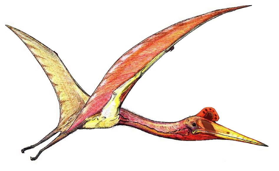 Artist's impression of an individual in flight. Quetzalcoatlus.